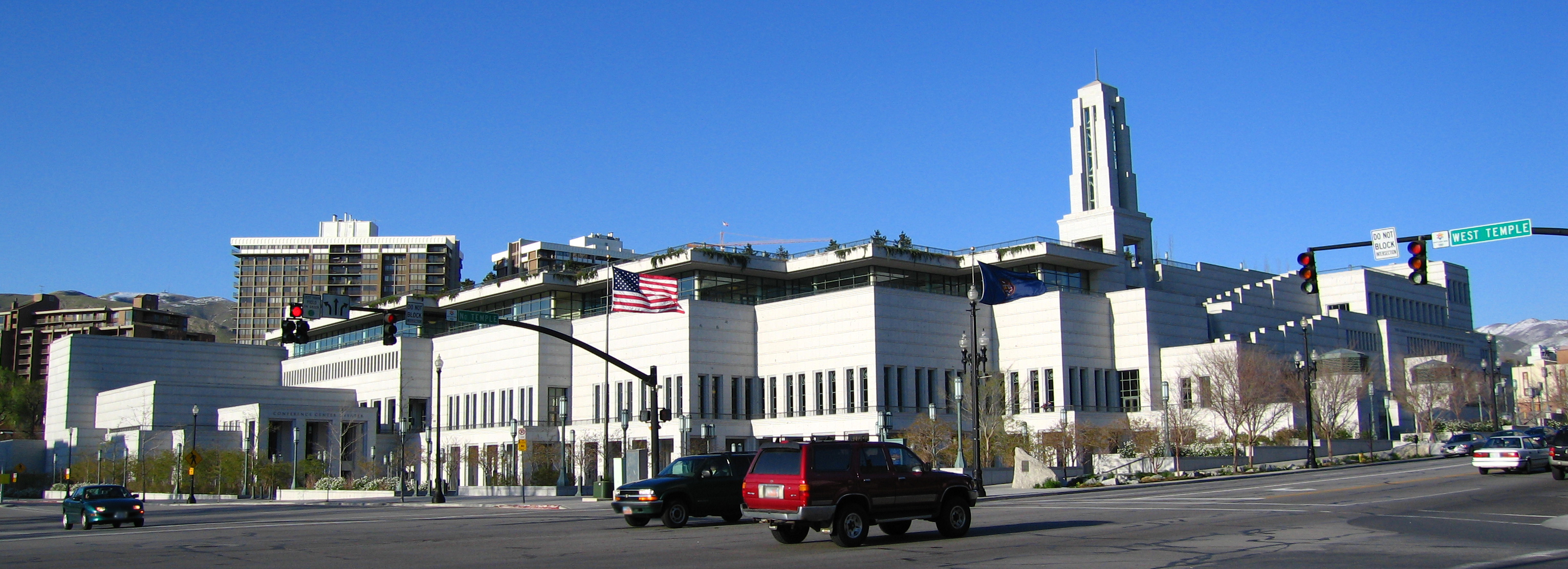 Conference Center of the Church of Jesus Christ of Latter-day Saints, Salt Lake City, Utah by Ricardo630 Ricardo630 06:23, 21 April 2006 (UTC)